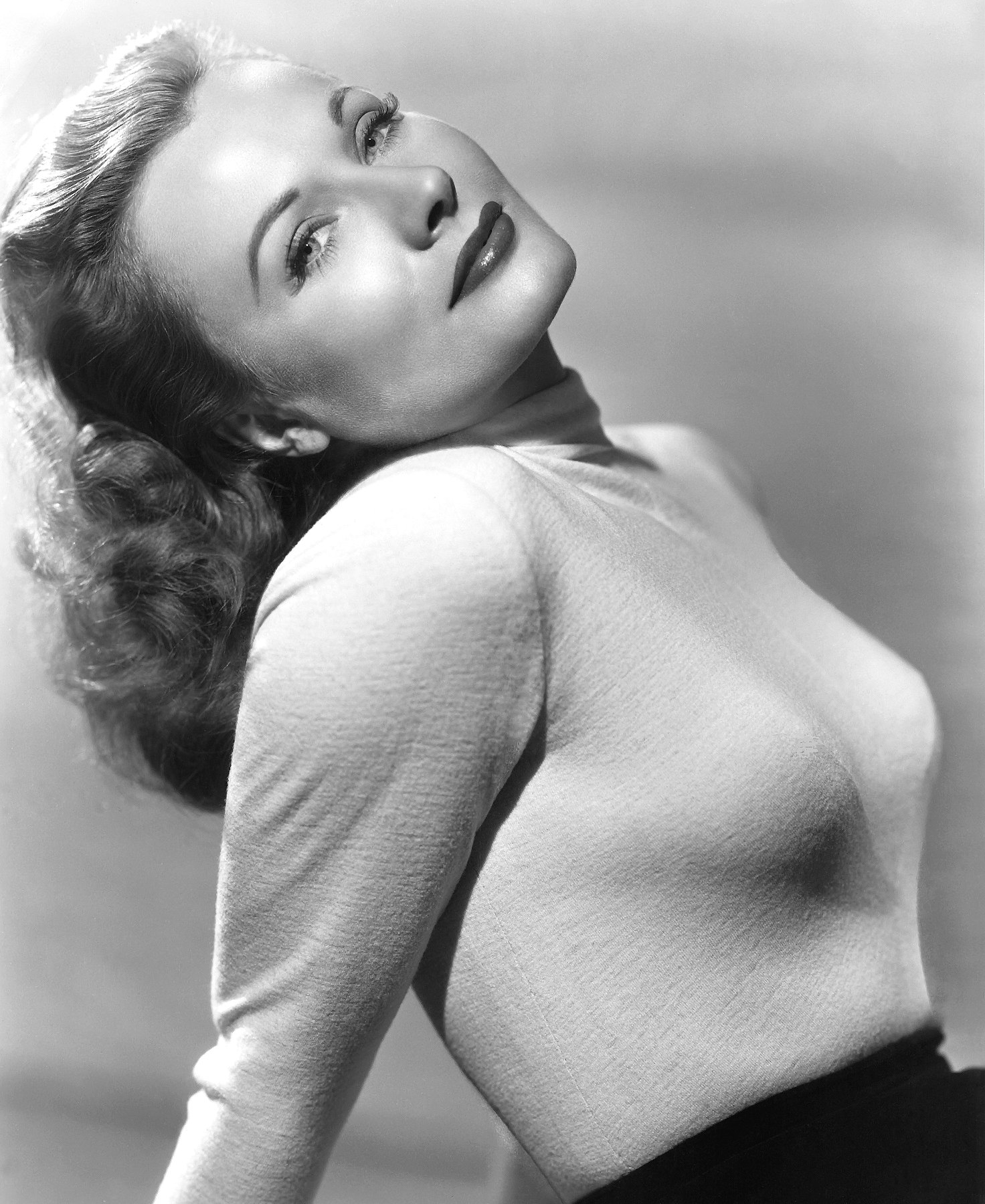 Photo of Florence Marly from a 1948 ad for the film Sealed Verdict in The trade publication Showmen's Trade Review. Note that the uploaded photo is a larger, better copy of the one of Marly which appeared in the film ad. Paramount did not mark the ad as copyrighted; copyrights for Showmen's Trade Review would not apply to the ad. (A check of periodical renewals for the years 1975 and 1976 indicate Showmen's Trade Review did not renew their copyright for 1948 issues of the trade journal.) There are no copyright marks on the ad. US Copyright Office page 3-magazines are collective works (PDF) "A notice for the collective work will not serve as the notice for advertisements inserted on behalf of persons other than the copyright owner of the collective work. These advertisements should each bear a separate notice in the name of the copyright owner of the advertisement."